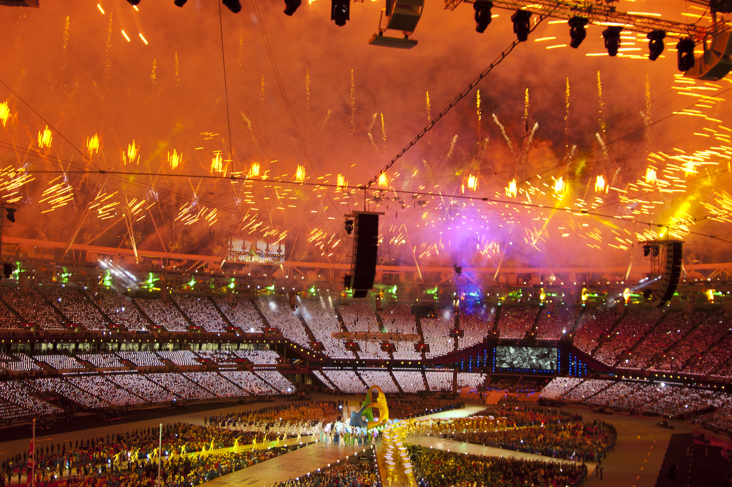 Closing Ceremony